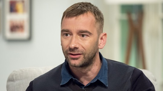 photo of Charlie condou